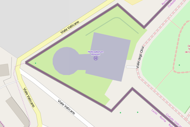 Map of the heliport in Vatican City This map may be incomplete, and may contain errors. Don't rely solely on it for navigation.